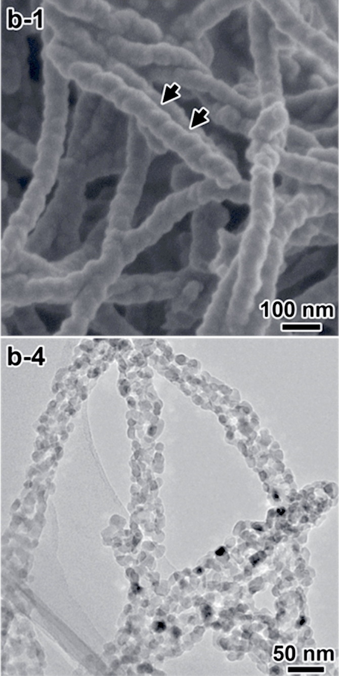 SEM and TEM images of chiral TiO2 nanofibers